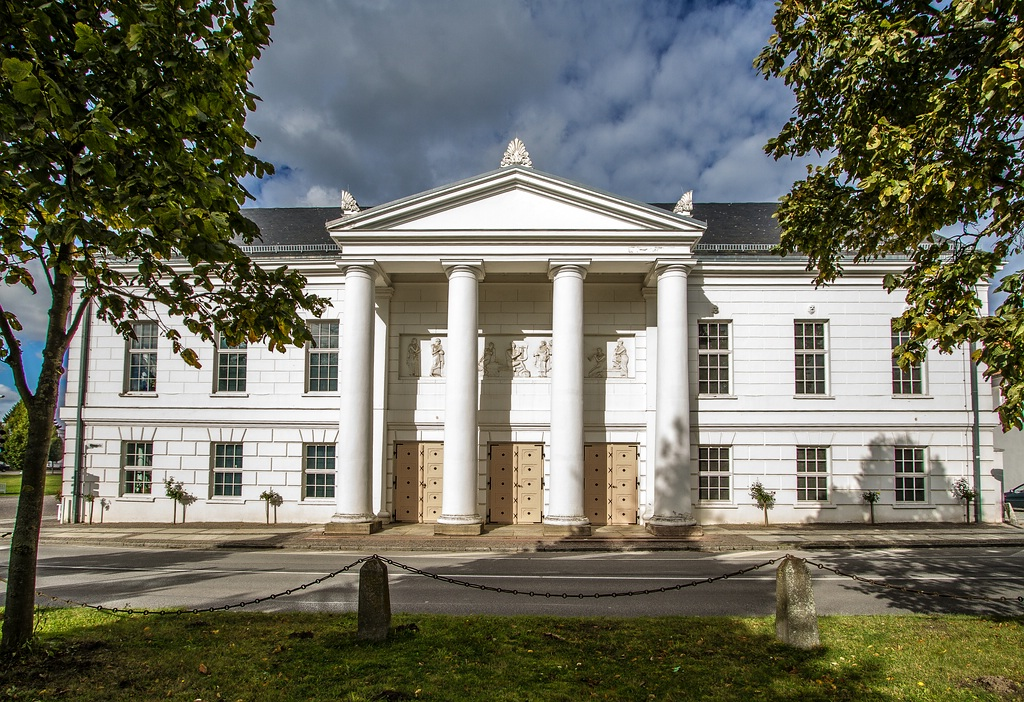 Putbus, Markt, Theater